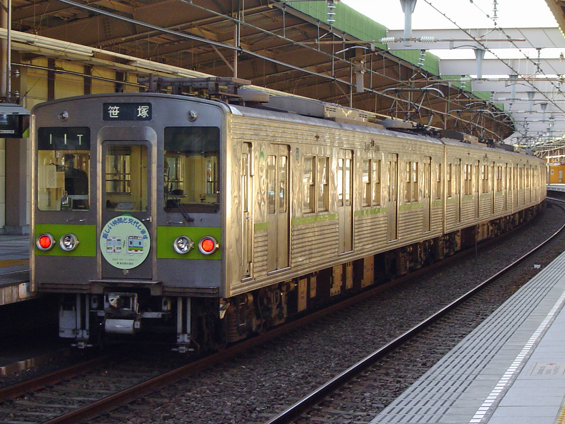 Toei 10-000 series EMU prototype set with a headboard commemorating its retirement